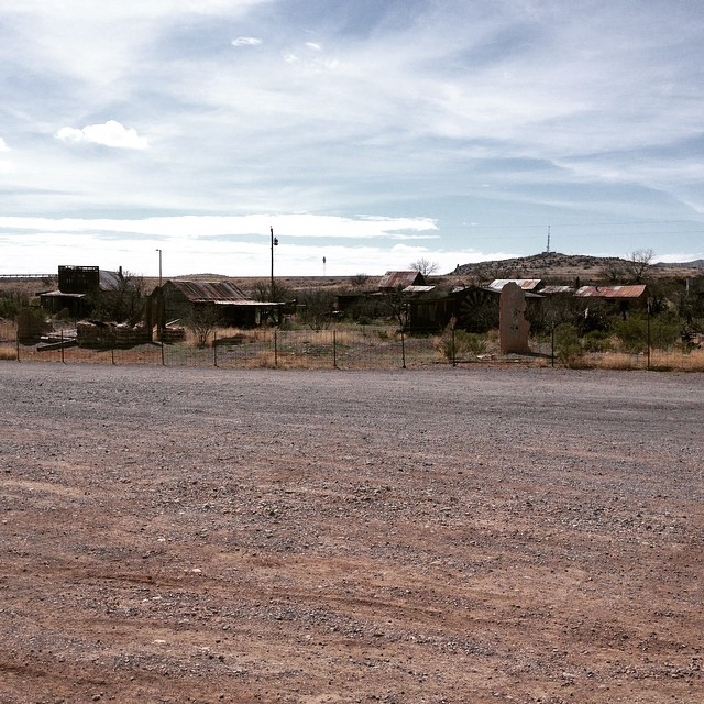 This is a shot of the ghost town Steins, located on the border of New Mexico.